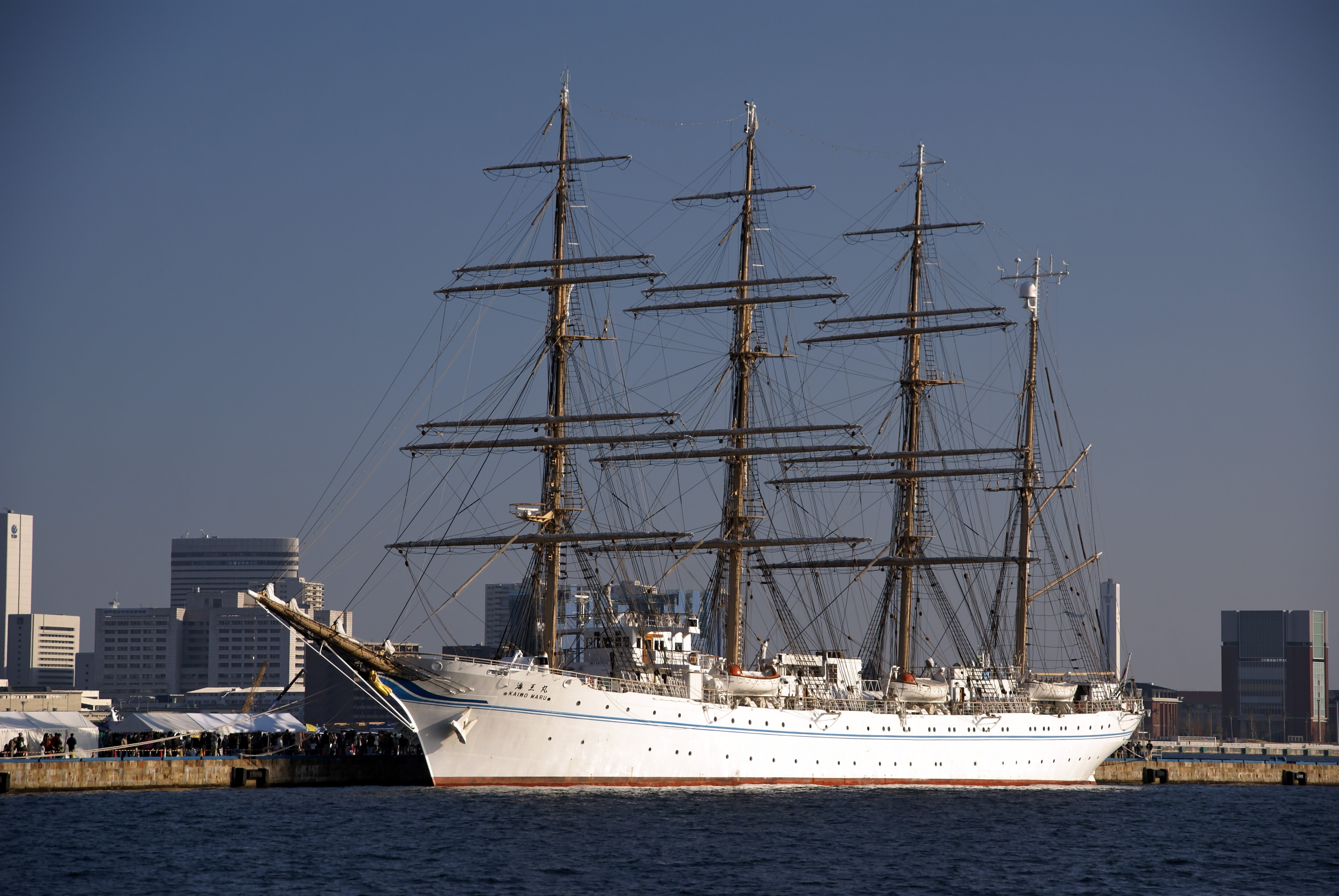 KaiomaruII who anchors at "Shinko daiichi-tottei" of the Kobe harbor ( Kobe, Hyogo prefecture, Japan)